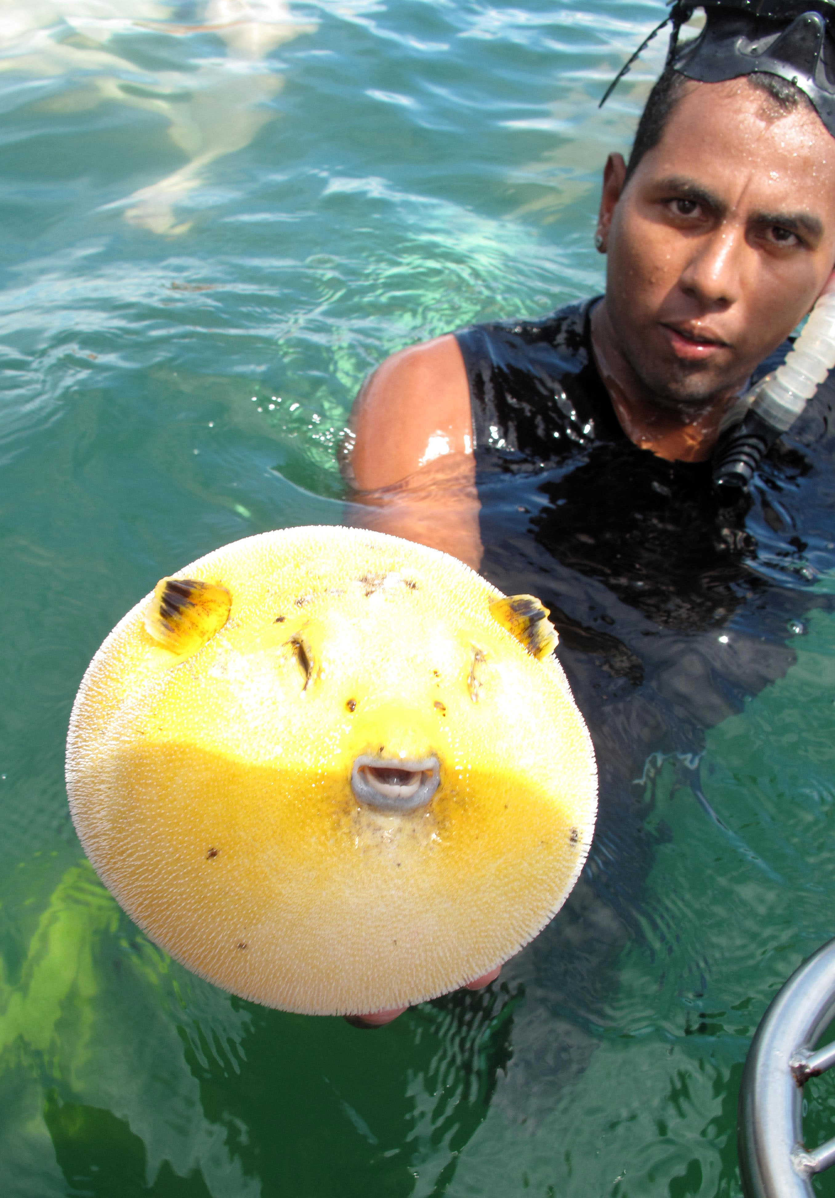 A puffer fish in Costa Rica.